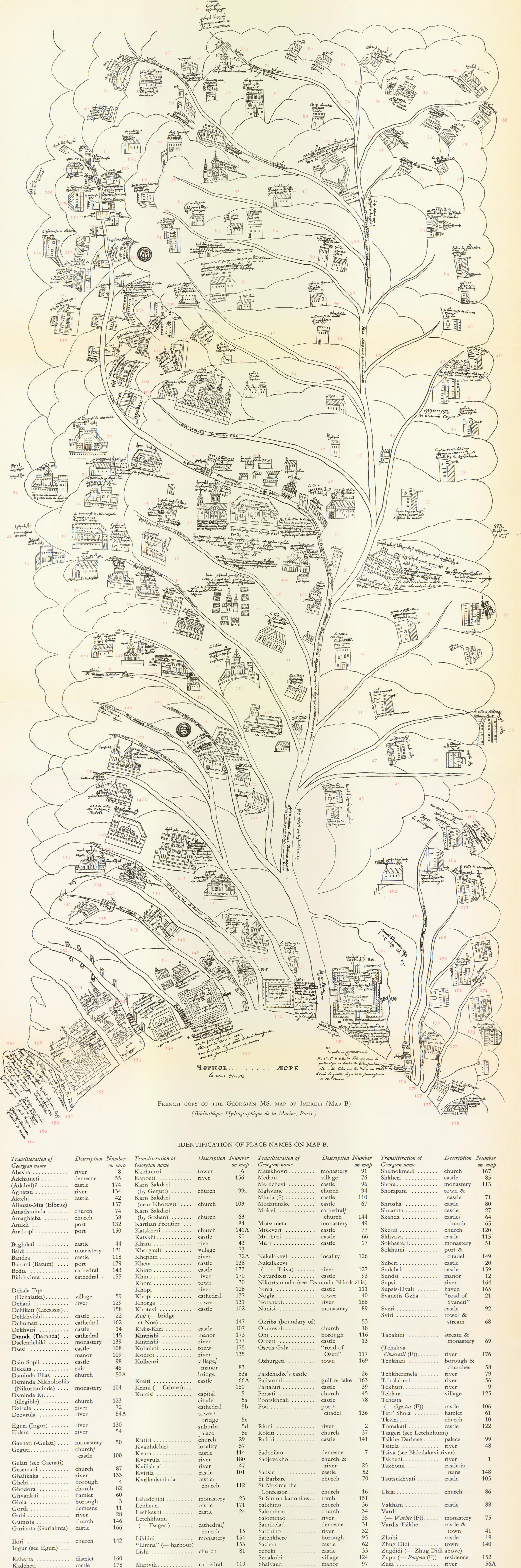 Imereti kingdom map